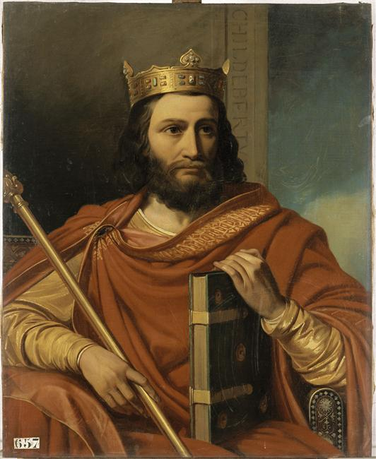 Portraits of Kings of France is a serie of portraits commissioned between 1837 and 1838 by Louis Philippe I and painted by various artists for the Musée historique de Versailles.